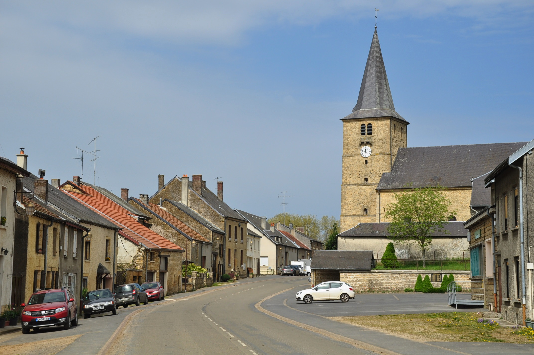 The Rue Principale (Main Street) and the church of St. Sebastian in Puilly-et-Charbeaux (Ardennes Department, Champagne-Ardenne region, France).